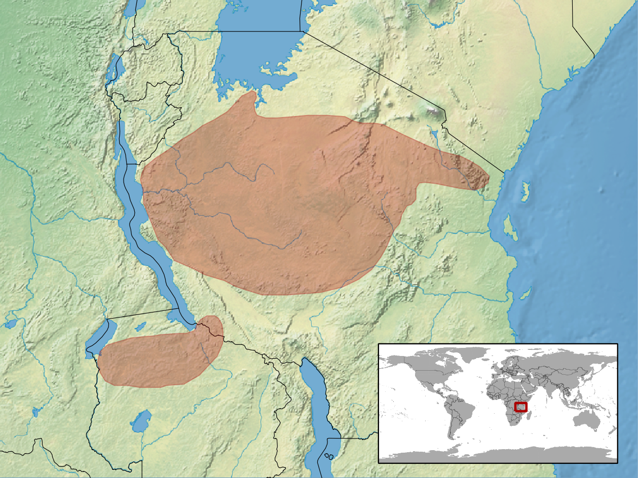 geographic distribution of Elasmodactylus tuberculosus (Native: Congo, The Democratic Republic of the; Tanzania, United Republic of; Zambia)